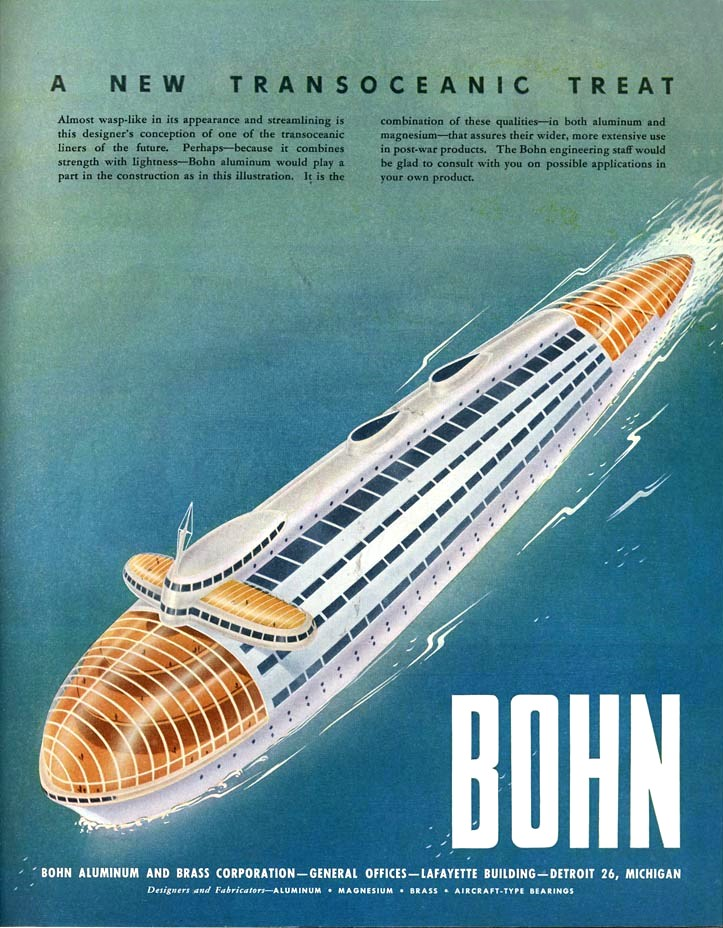 Bohn transoceanic treat advertisement 1946